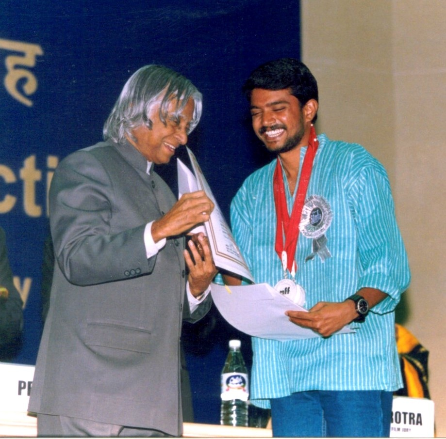 he got a noational award for his movie